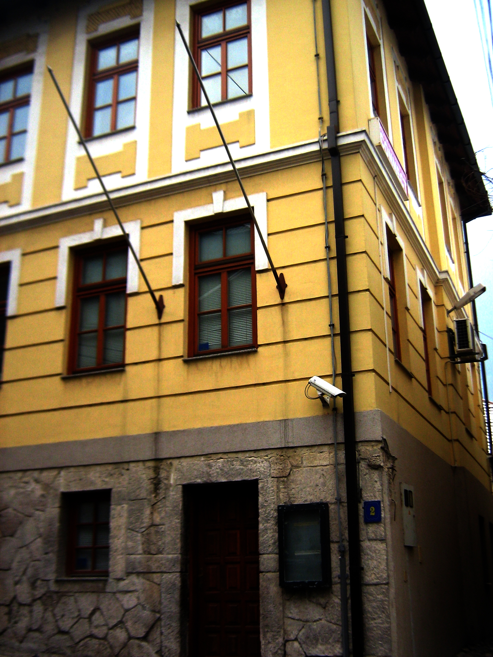 Association Citizen's Educatinal Center HQ